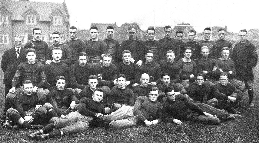 Photograph of 1918 Michigan football team (full squad)